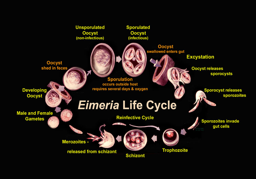 Eimeria Life Cycle Eimeria have a complex life cycle that begins after oocysts that are in the litter are ingested by chickens. The grinding action of the gizzard coupled to the enzymes in the gut of chickens leads to release of the sporozoite stage. The sporozoites search out particular regions of the gut and invade the epithelial cells lining the intestine. This invasion may occur within 1 to 6 hours after the oocysts are ingested. After invasion, the sporozoites undergo replication, which leads to a rapid increase in another stage of the parasite called merozoites. This developmental stage breaks out of the gut cells and invades more cells of the gut, multiplying once again. The effects of coccidiosis are generally associated with the lysing of host epithelial cells by merozoites. As many as four generations of merozoites may develop in the gut during an infection. The number of generations is dependent on the particular species of Eimeria. Some, as yet unidentified, signal tells the merozoites to develop into the sexual stages called micro- (male) and macro-(female) gametocytes. These develop into micro- and macrogametes which fuse to form a zygote. The zygote develops into an oocyst stage that are eventually released in the feces. These oocysts are covered by a hard shell, but first must undergo further development (sporulation) in litter to become infectious for chickens. The whole process between oocyst ingestion and release may take between 4-6 days to complete.